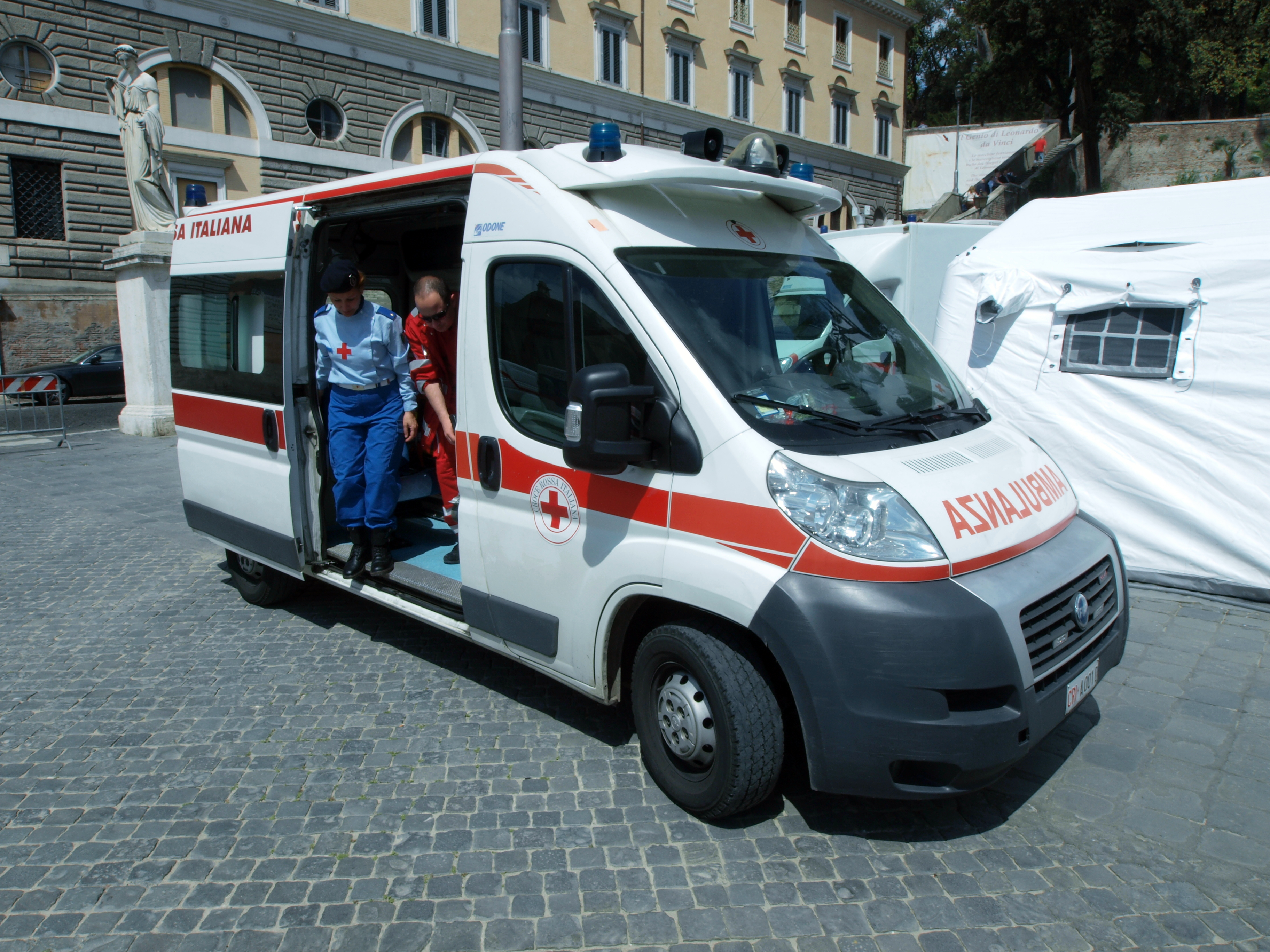 Fiat power Odone Ambulanza in Rome, with "AMBULANZA" in mirror writing ("AZNALUBMA")